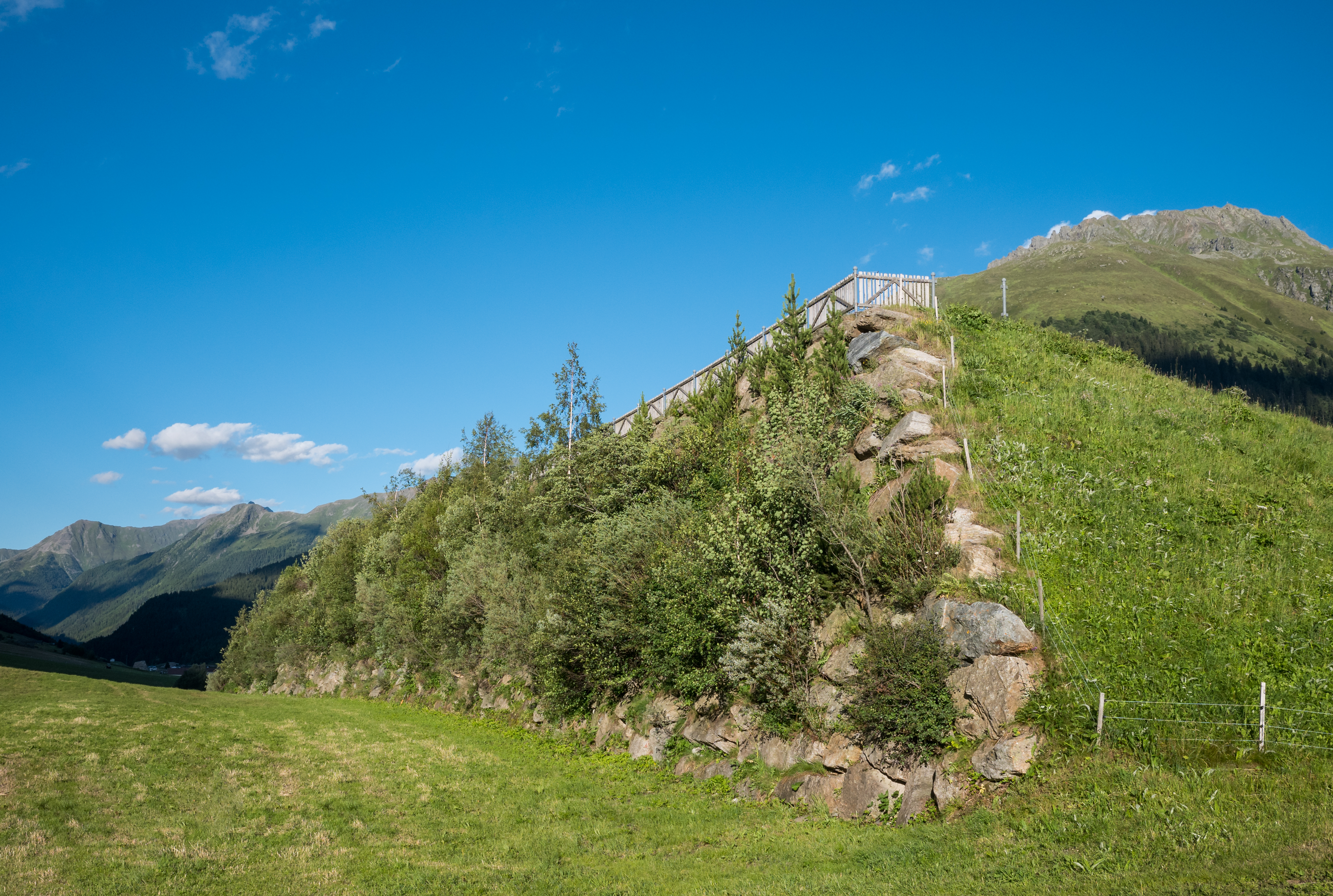 Avalanche protection wall at the village border of Galtür, below the Grieskogel mountain. Paznaun, Tyrol, Austria